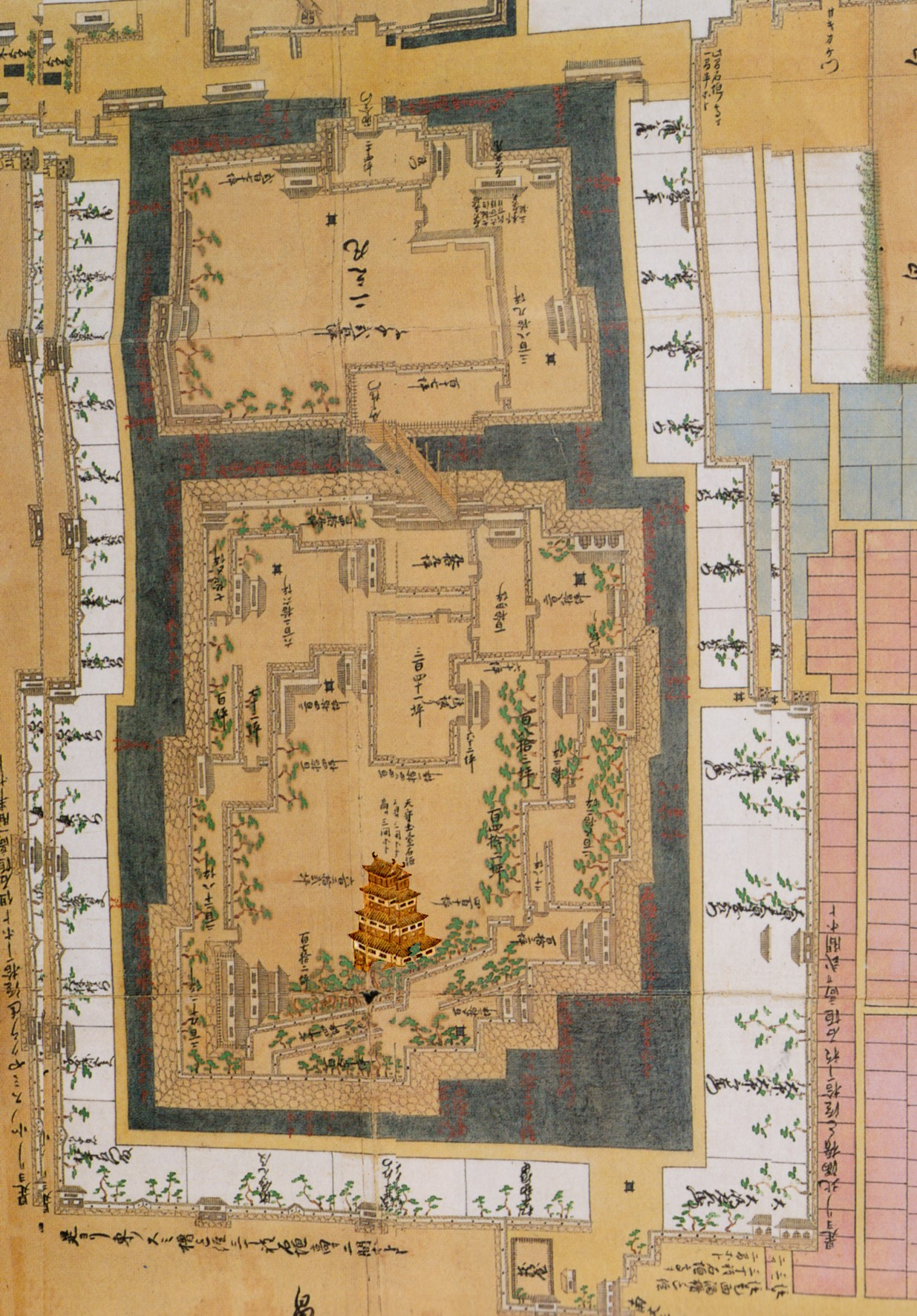 Shimabara castle